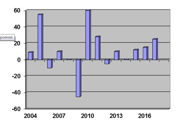 The growth of exports of services to Armenia for the period 2004-2017. %